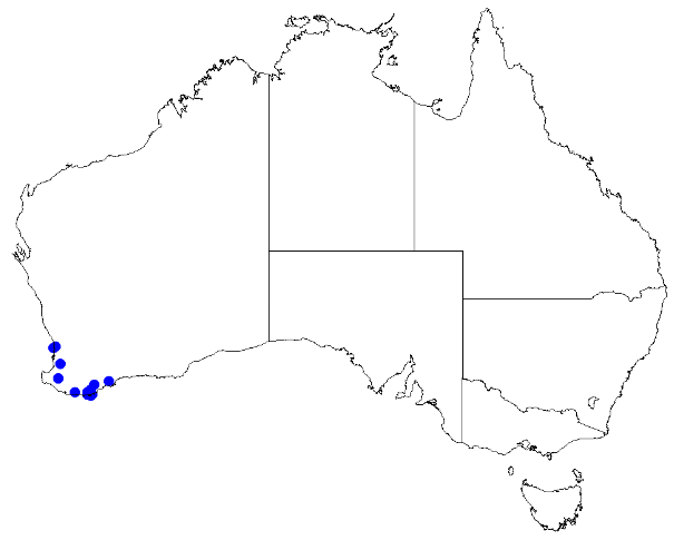 Boronia crassipes occurrence data downloaded from Australasian Virtual Herbarium 10 April 2019 using This download included all the environmental overlay fields and ALA's data checking fields (over 600 fields) including "cultivated / escapee", "outside expert range for species", "latitude is negated", "coordinates are transposed", "taxon misidentified", "habitat incorrect for species", and "suspected outlier". Deleting occurrences for which any of the above were true, 46 specimens with coordinates were deleted. However this did not remove all obvious spatial outliers which were later removed by hand...